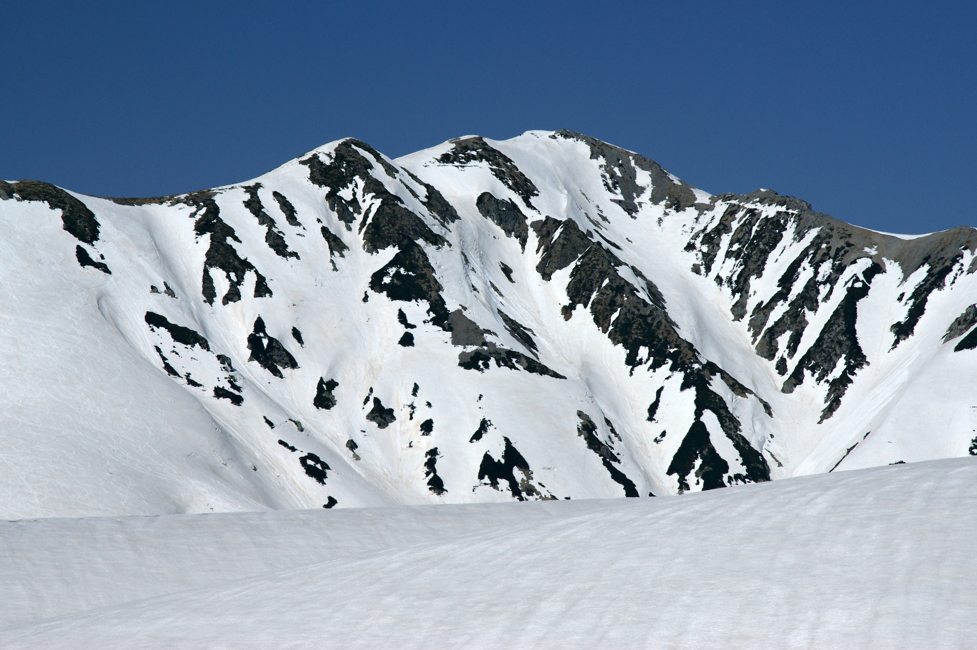 Mt. Bessan peaks(2880m) from Murodo(2450m), Toyama prefecture, Japan